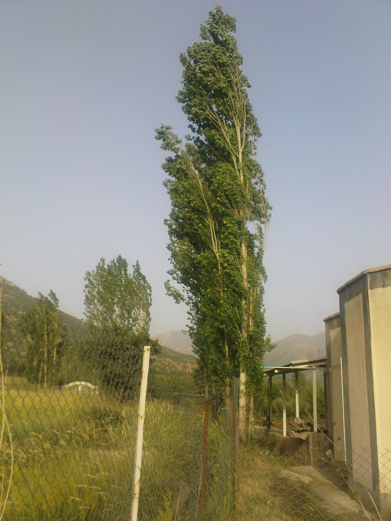 Poplar Kurdî: چنار